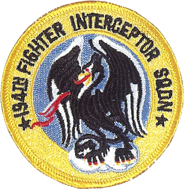 Emblem of the 194th Fighter-Interceptor Squadron (CA ANG - Air Defense Command)